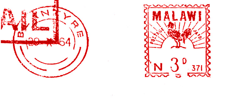 Meter stamp catalog image, Malawi type C1